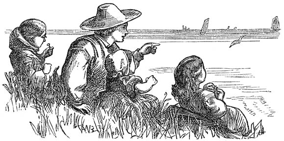 From 'Andersens Sproken en vertellingen' by Hans Christian Andersen, Titia van der Tuuk (ed.) and Simon Jacob Andriessen (trans.). Gebroeders E. & M. Cohen, Nijmegen - Arnhem. Illustrated by Alfred Walter Bayes (1832-1909) and engraved by the Dalziel Brothers (Edward Daziel, 1817-1905; George Daziel, 1815-1902).